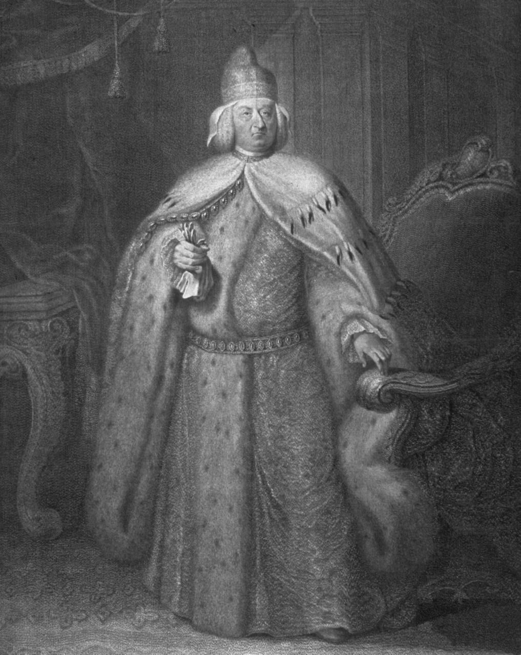 Portrait of the Venetian doge Alvise Giovanni Mocenigo (1701-1778)